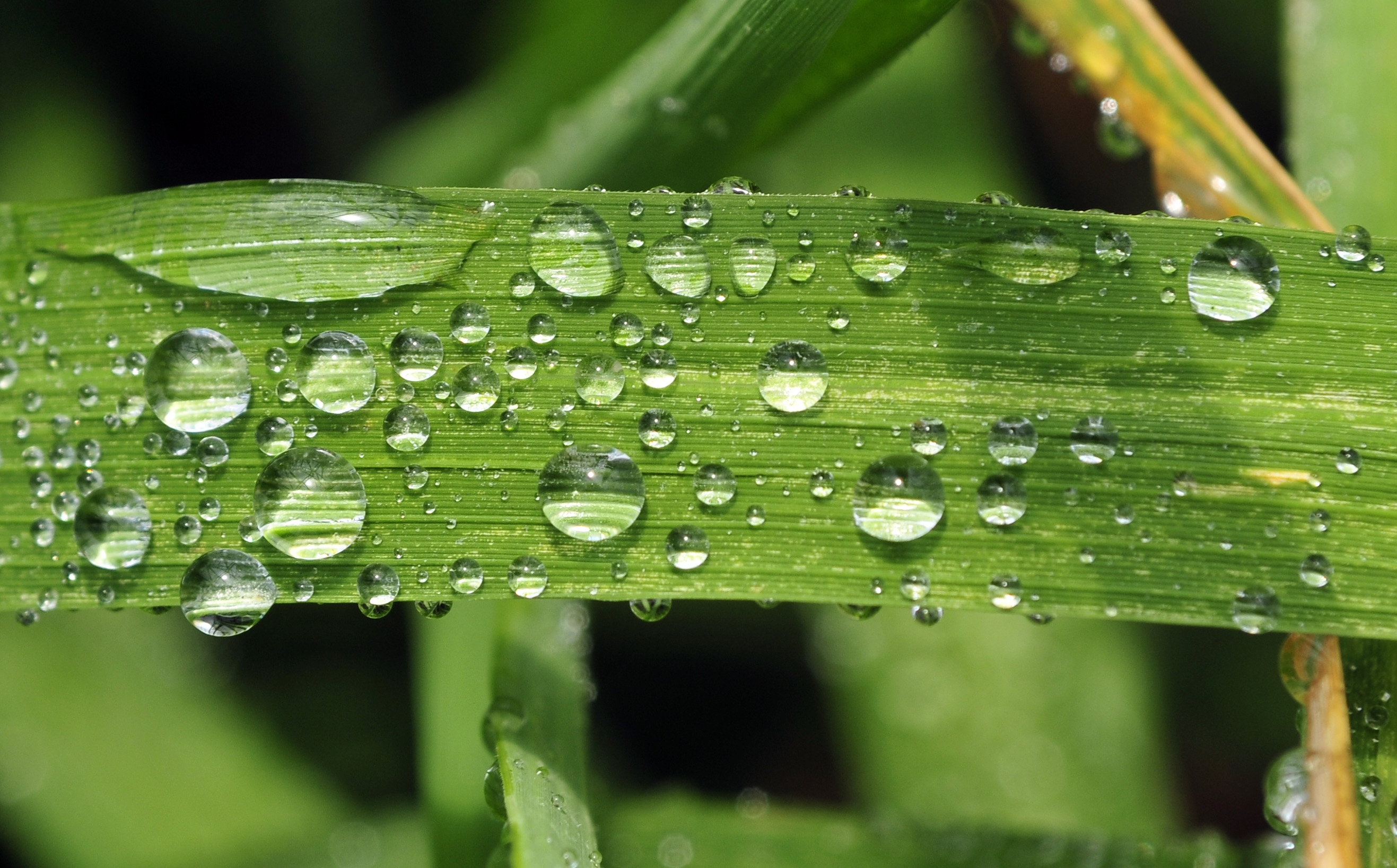 Pic by Neil Palmer (CIAT). The leaf of a rice plant after being watered in a rainout shelter as part of trials at CIAT's Colombian headquarters.